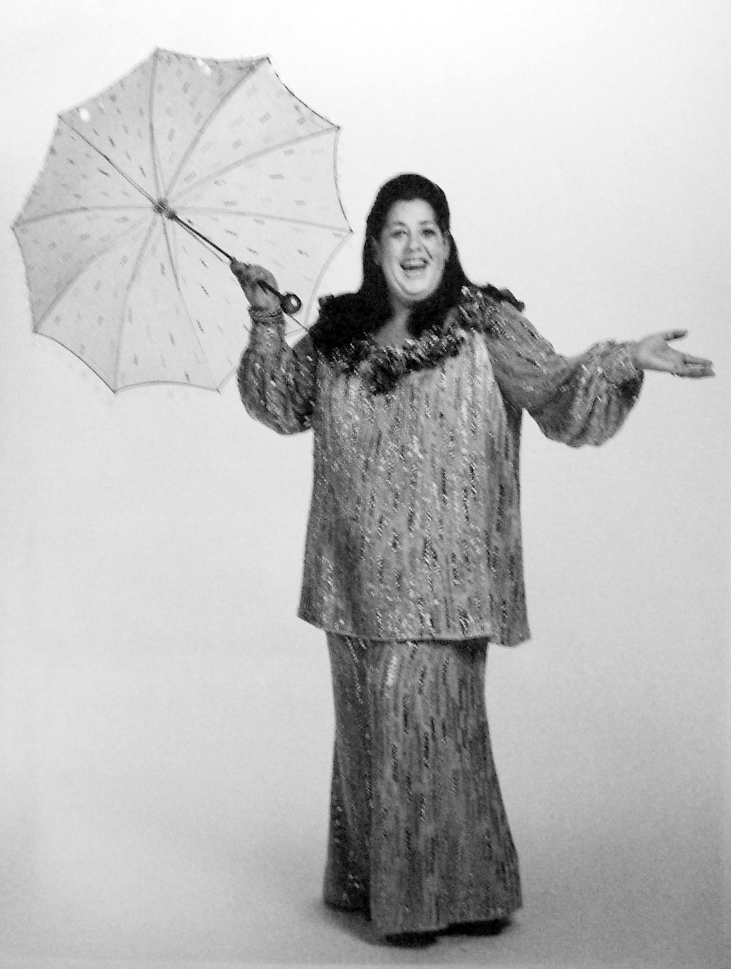 Publicity photo of Cass Elliot from her 1973 television special Don't Call Me Mama Anymore.